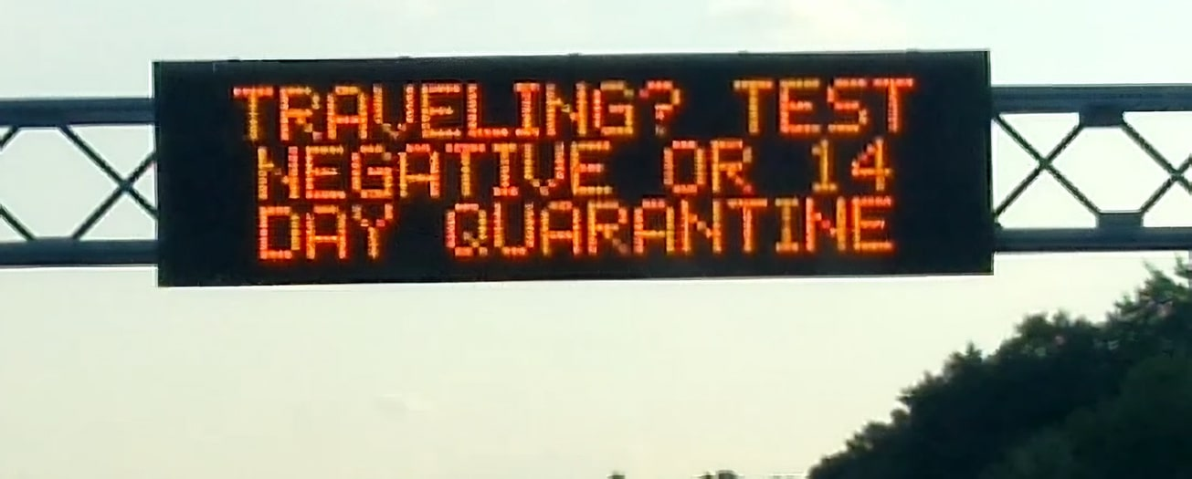 Electronic road sign in Boston displaying the new COVID-19 travel restriction in Massachusetts